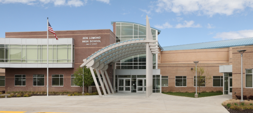 Ogden School District built Ben Lomond High Schools in 1957. In 2006 The District provided a bond that began renovations to the Ben Lomond building (besides the gym) making major changes. It finished renovations in 2010.